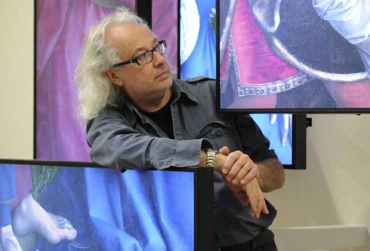 Walter Verdin between the monitors of his video installation Sliding Time, Leuven 2009